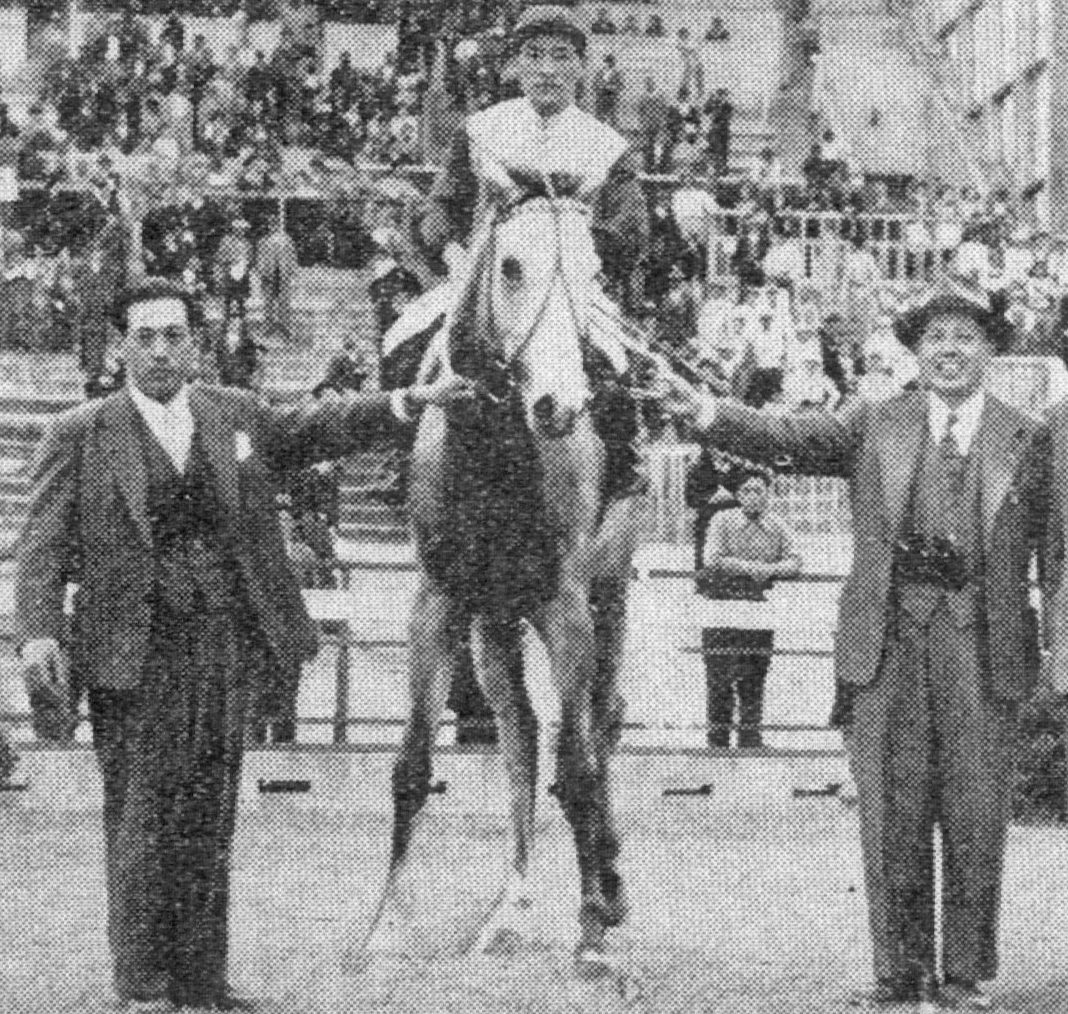 Hakuo(horse)